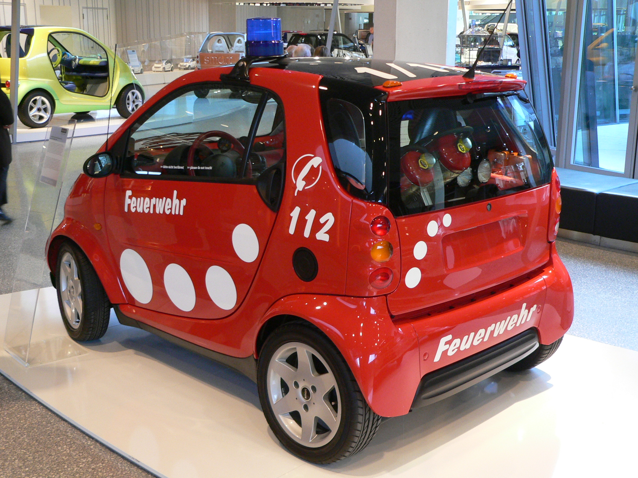 Fire department Smart in the Mercedes-Benz-Museum, Stuttgart, Germany